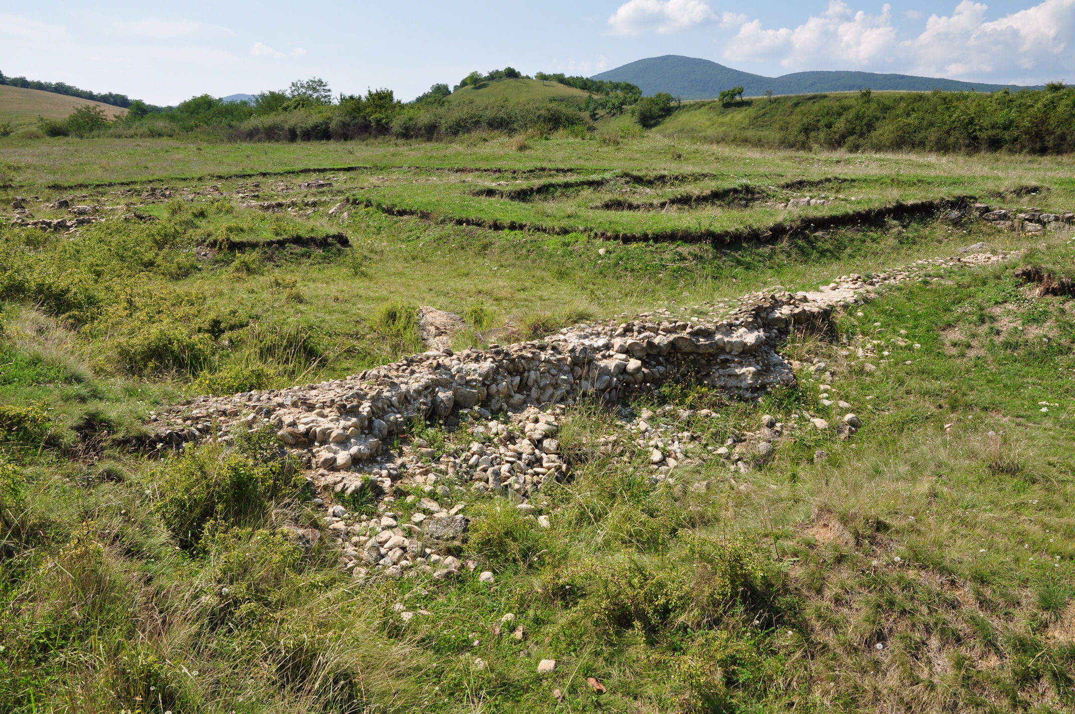 Castra of Cigmău